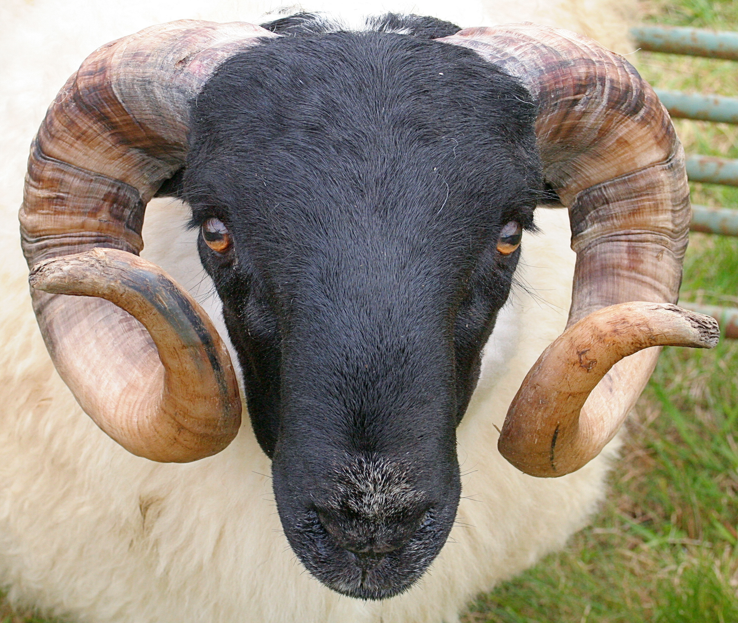 One of the few sheep prepared to pose for me at the recent County Show. Scottish sheep spend a lot of time on the mountains and are very wary of photographers! Made Explore 18th September 2007 # 460